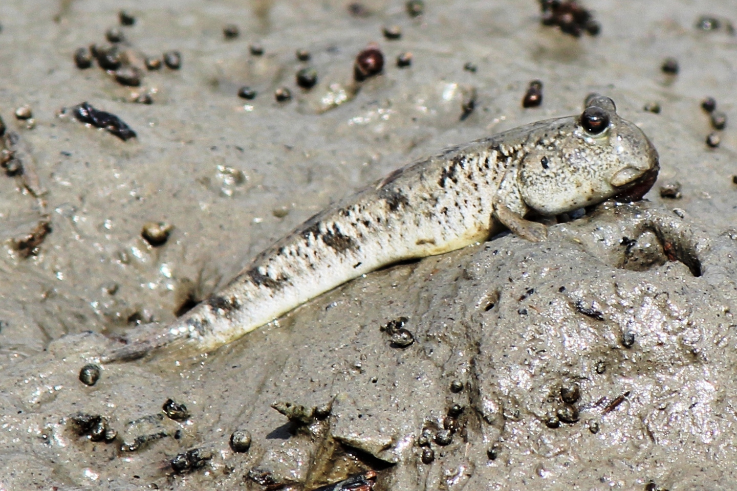 Periophthalmus modestus (Shuttles hoppfish) eating ragworm, in Fujimae-higata